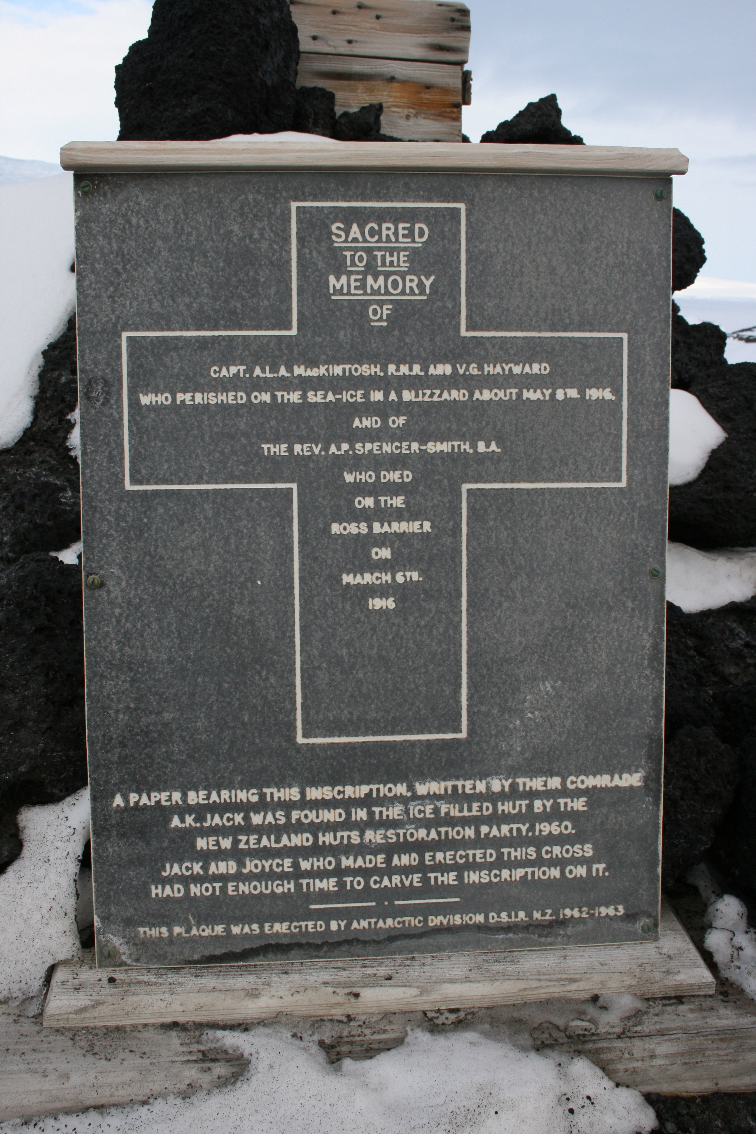 Plaque at Cape Evans, Ross Island, 77°38'S, 166°24'E to mark Historic Site and Monuments (HSM) no. 17: Cross on Windvane Hill erected by the Ross Sea Party, led by Captain Aeneas Mackintosh, of Sir Ernest Shackleton’s Imperial Trans-Antarctic Expedition of 1914-1916, in memory of three members of the party who died in the vicinity in 1916.